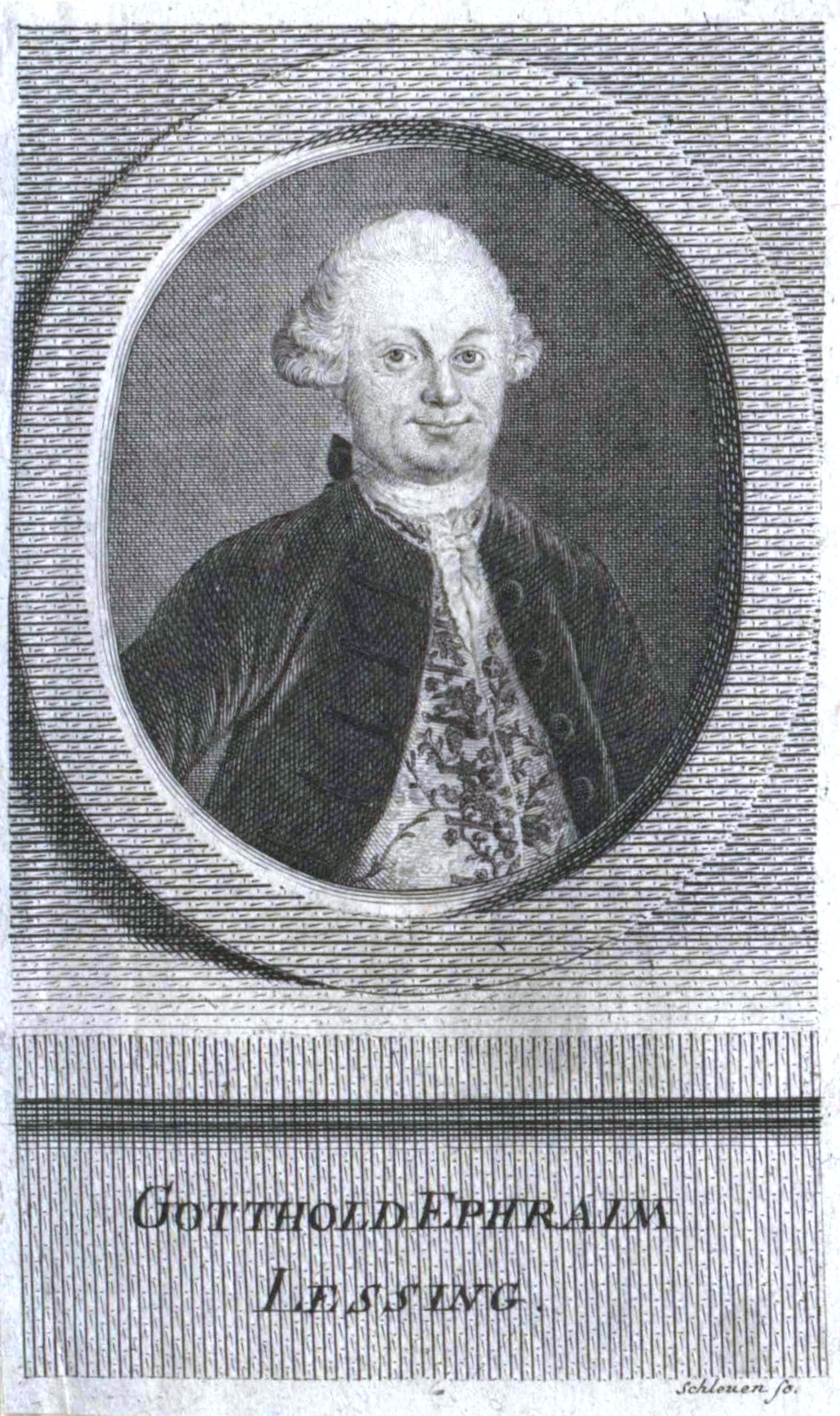 Gotthold Ephraim Lessing (1729–1781)